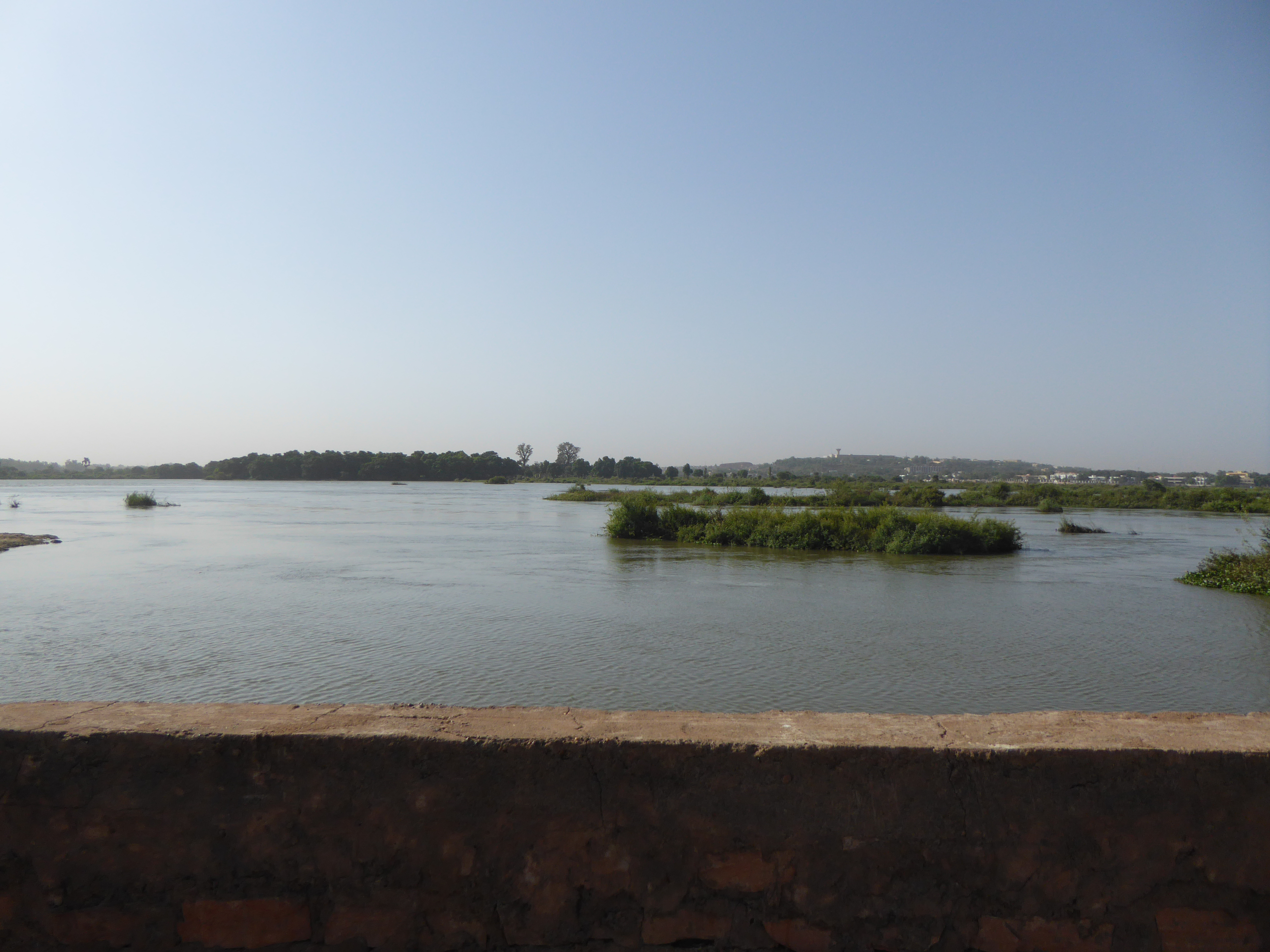 view from the south of the Cité du Niger